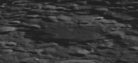 Oblique view of H. G. Wells, on the far side of the moon. North is at left. Brightness enhanced 30%.